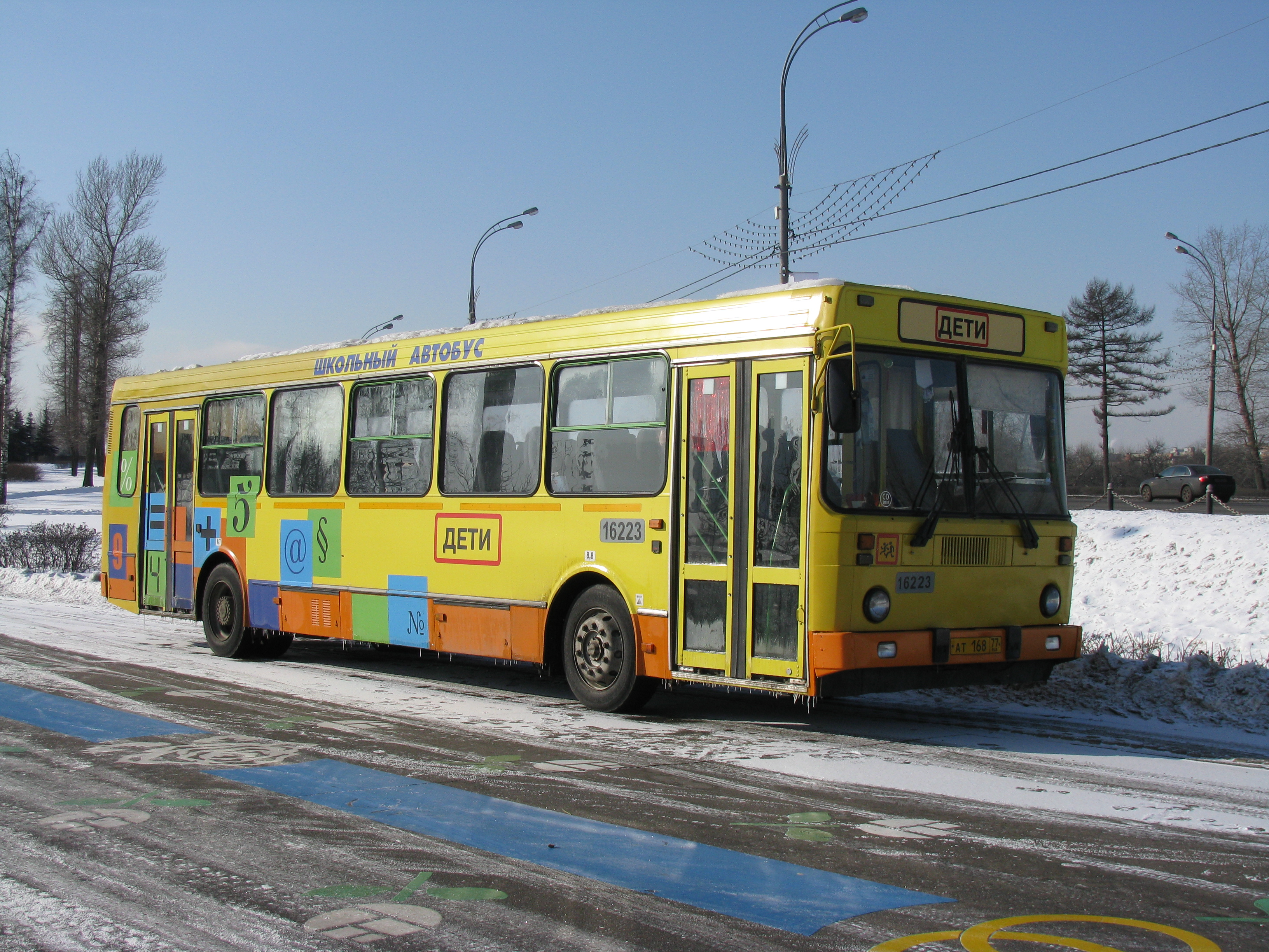 School LiAZ-5256.25-II in Moscow